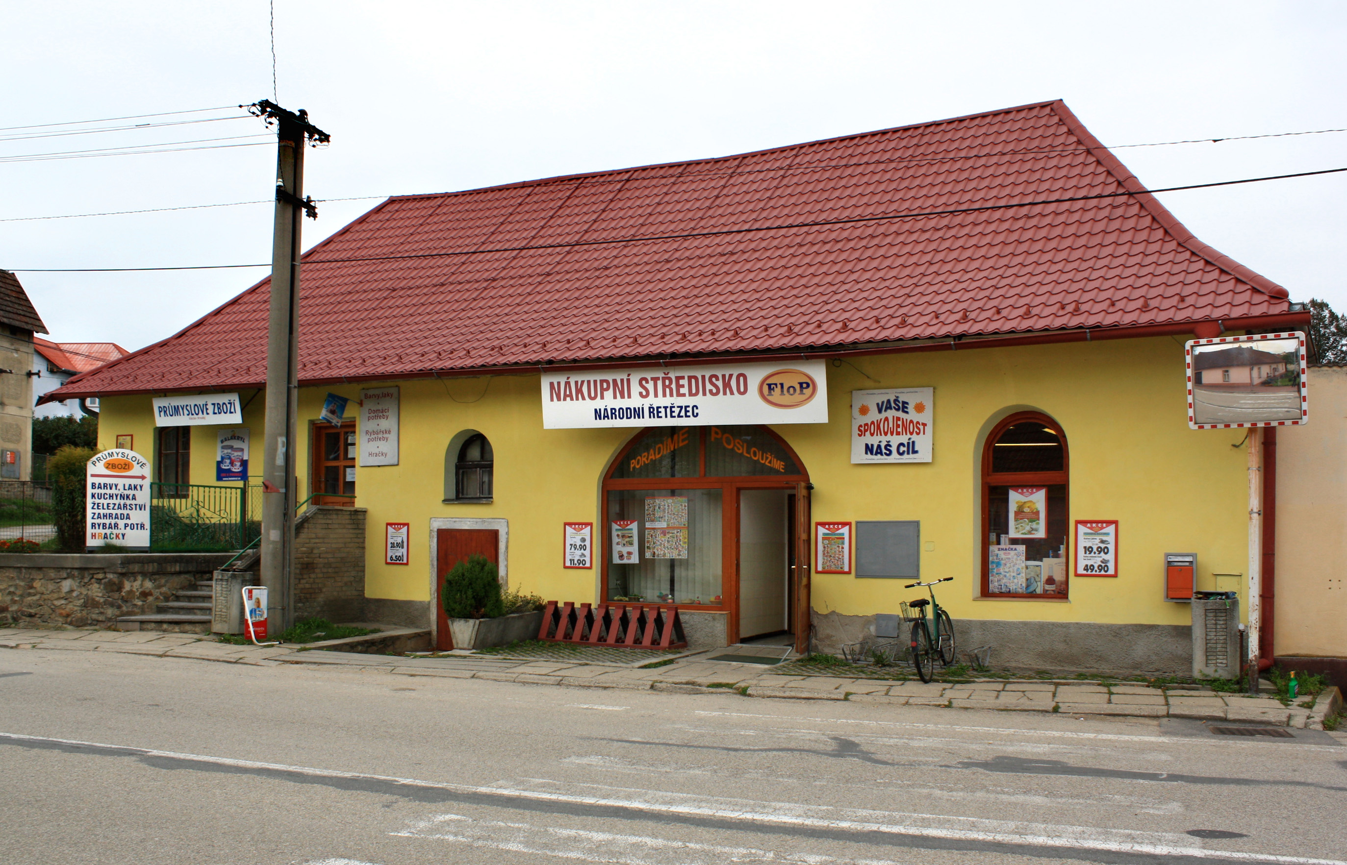 Former synagogue in Stráž nad Nežárkou, Czech Republic